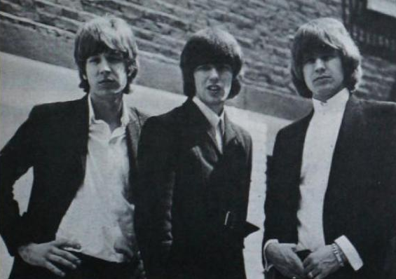 Trade ad for The Walker Brothers's single "Make It Easy on Yourself" (from left to right: Scott, Gary and John Walker). To better adapt it to his respective Wikipedia article, the ad was cropped and cleaned in a graphics editing program. The original can be viewed at the source below.